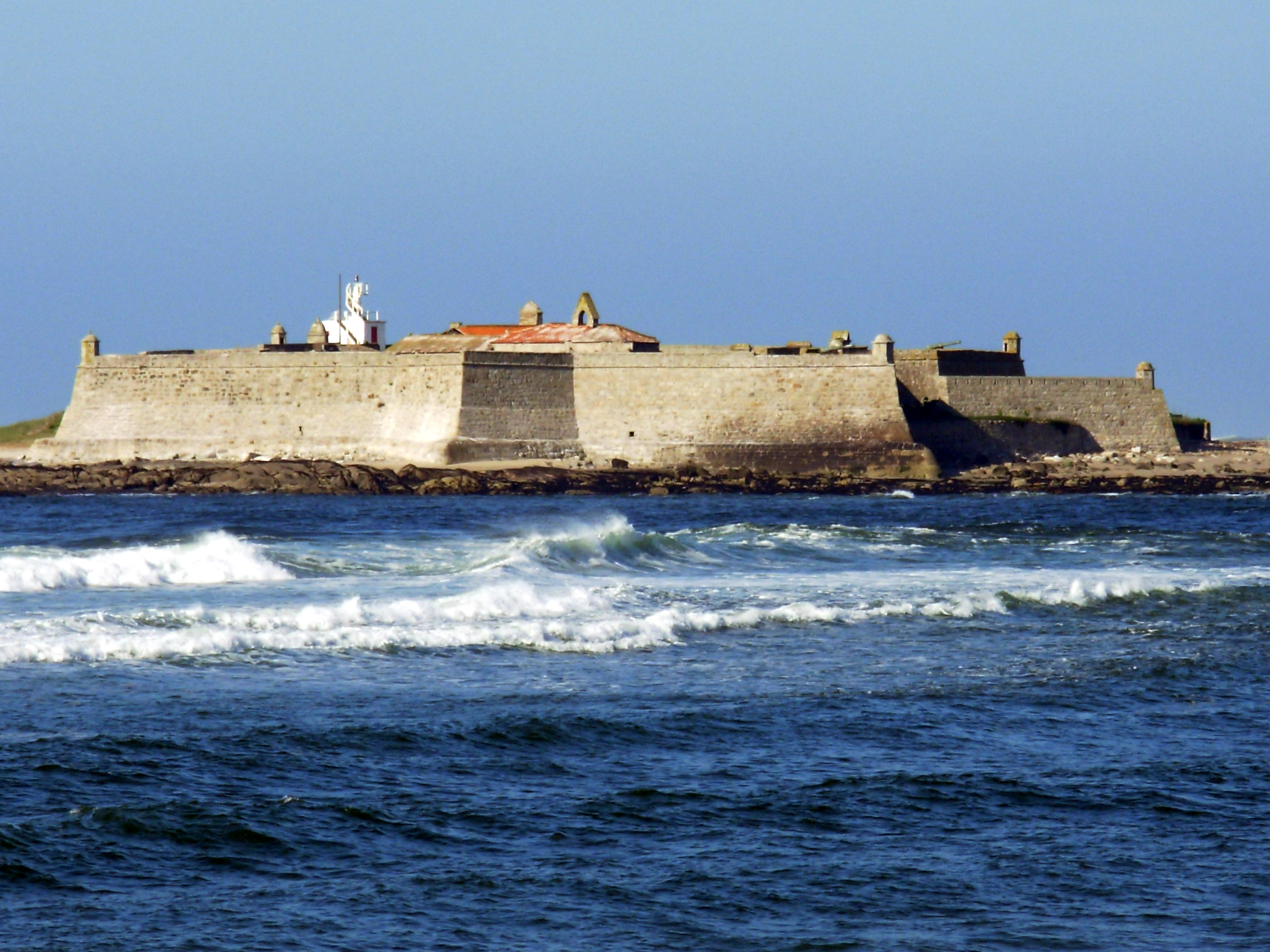 Ínsua Fort, Minho river mouth, Caminha, Portugal